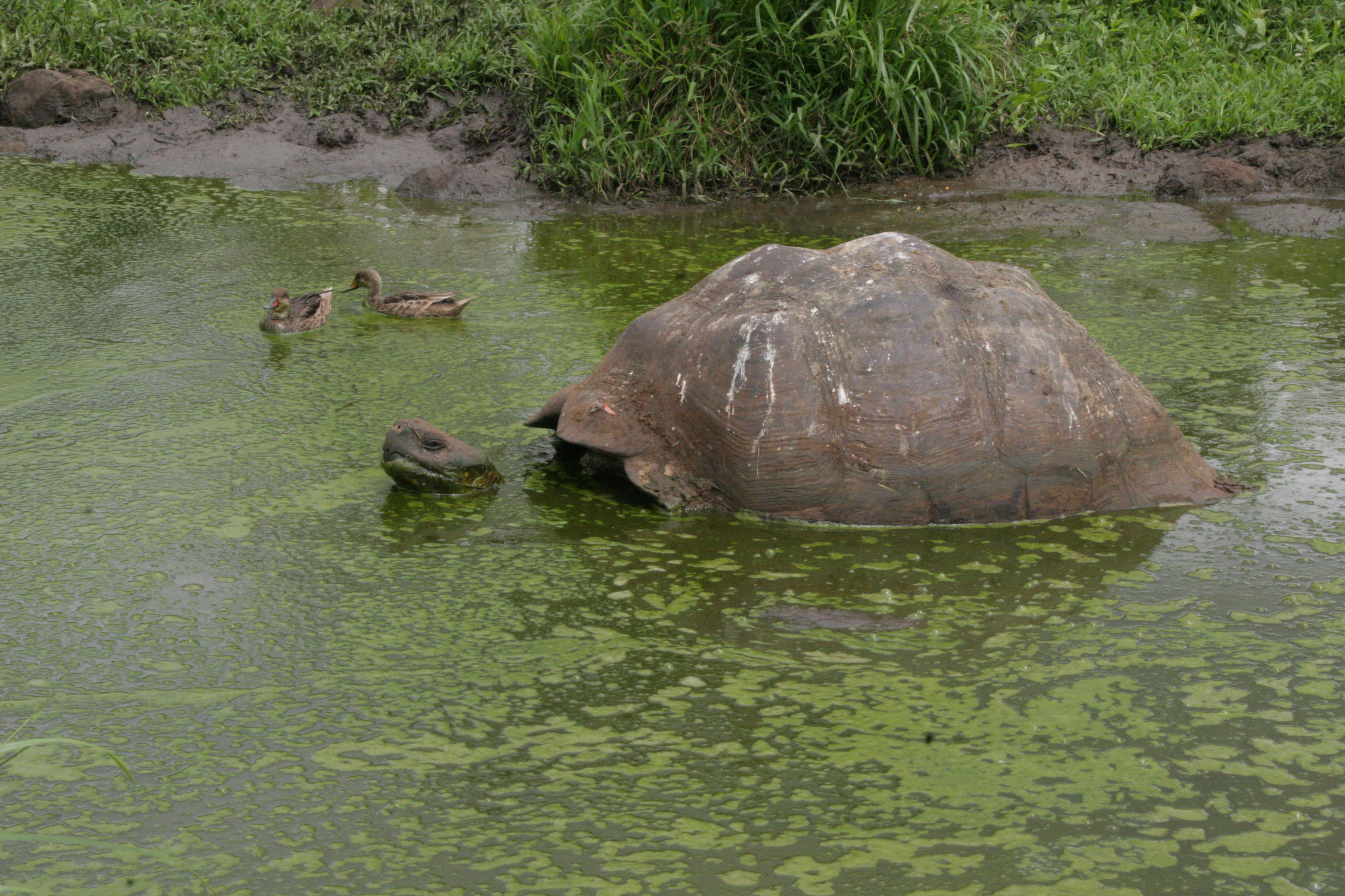 A Galapagos tortoise on the Island of Santa Cruz bathes in a pool